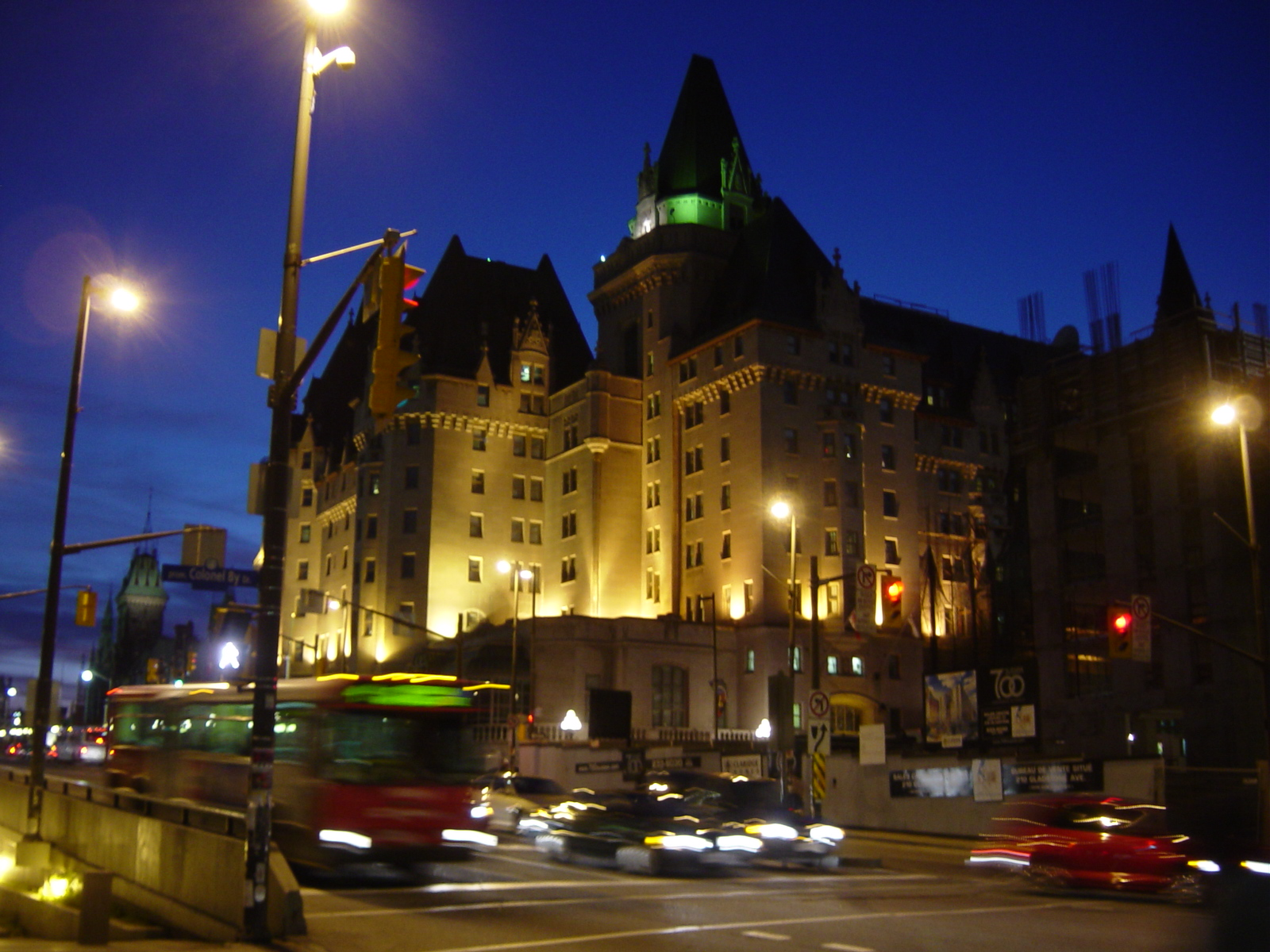 Château Laurier, Ottawa, Canada. Seen from the corner of Sussex and Rideau.